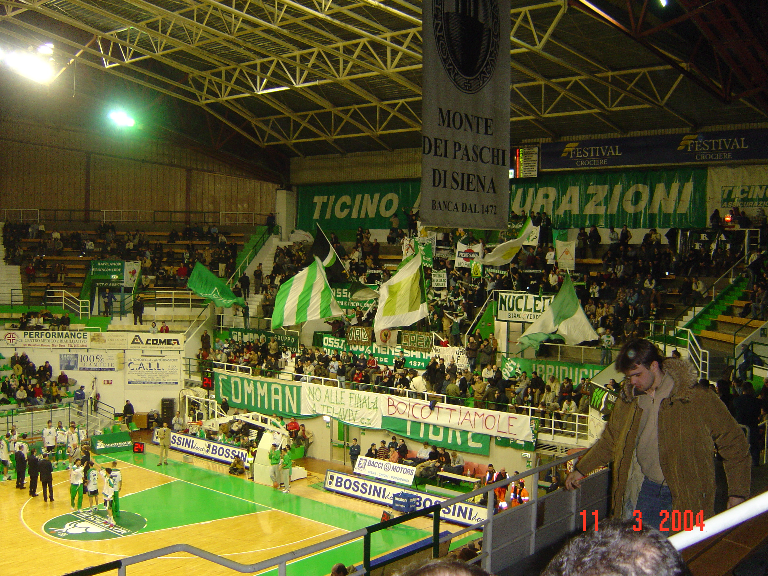 PalaMensSana (Siena, Italy), home to the Mens Sana Basket professional basketball team